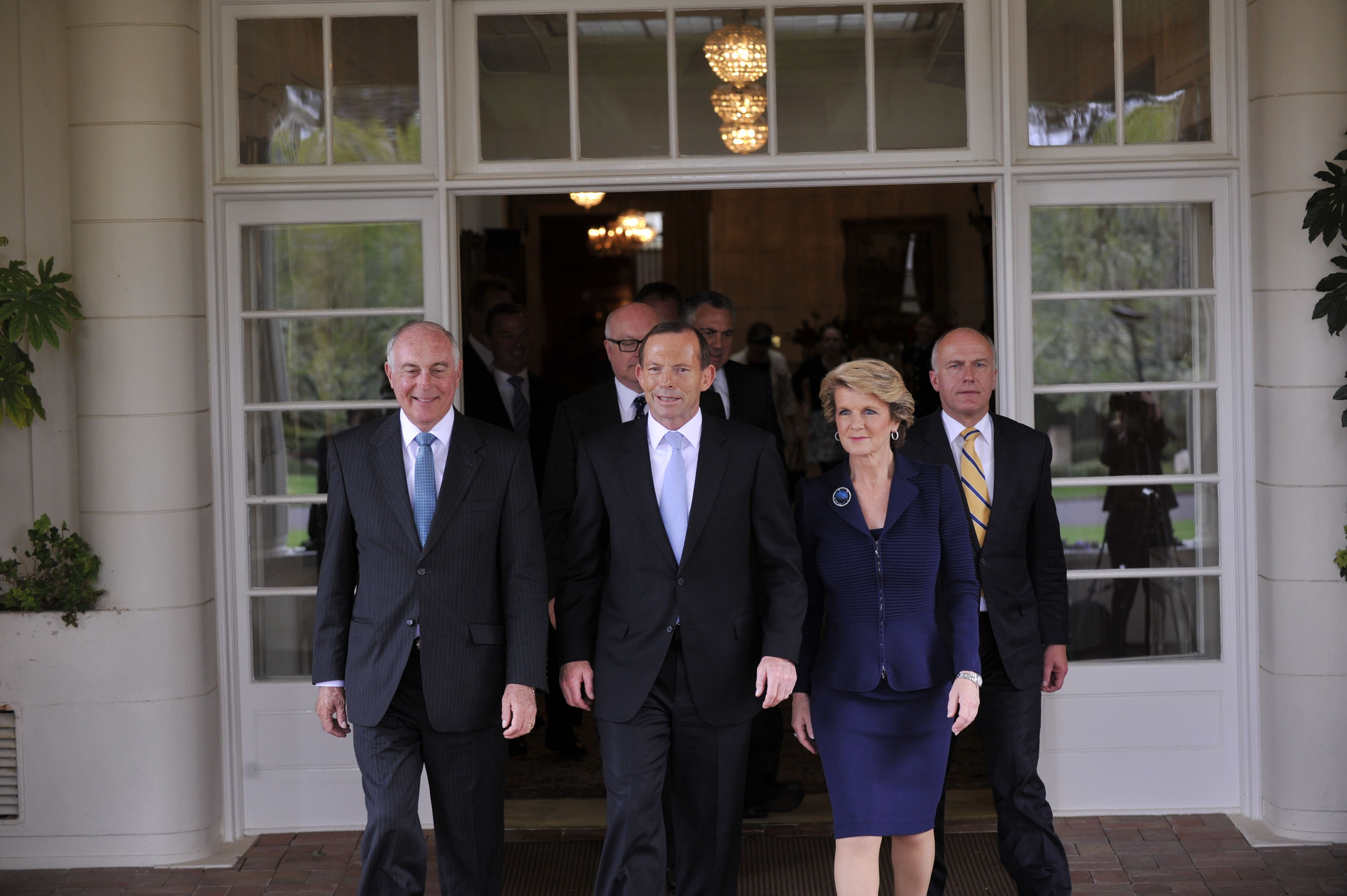 Prime Minister Tony Abbott and Ministry leaving the swearing in ceremony